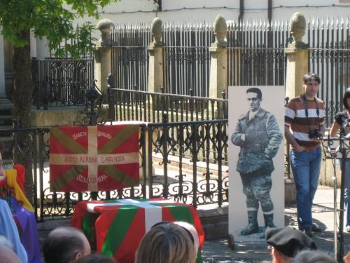 Remembering kandido saseta in gernika